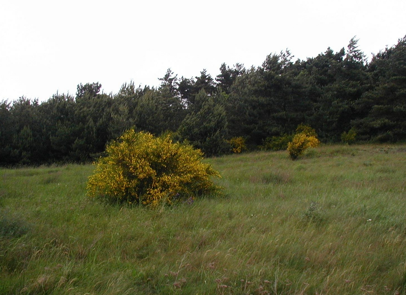 Cytisus scoparius: Flowering shrubs at Mols Bjerge, Jutland